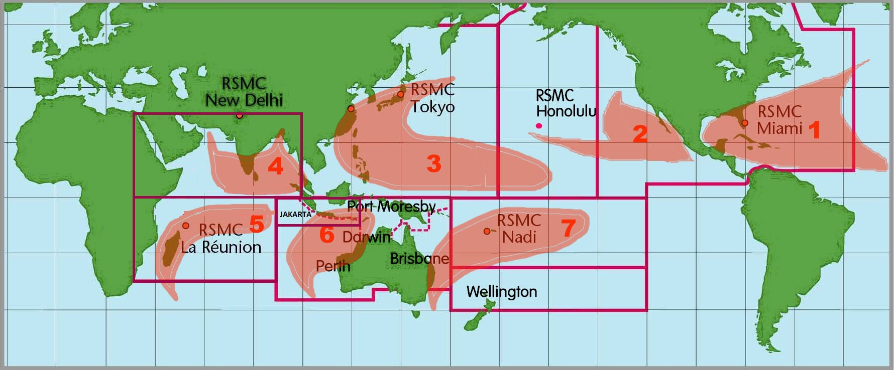 Images of the seven tropical cyclone basins where storms occur on a regular basis around the world and the corresponding Regional Specialized Meteorological Center.